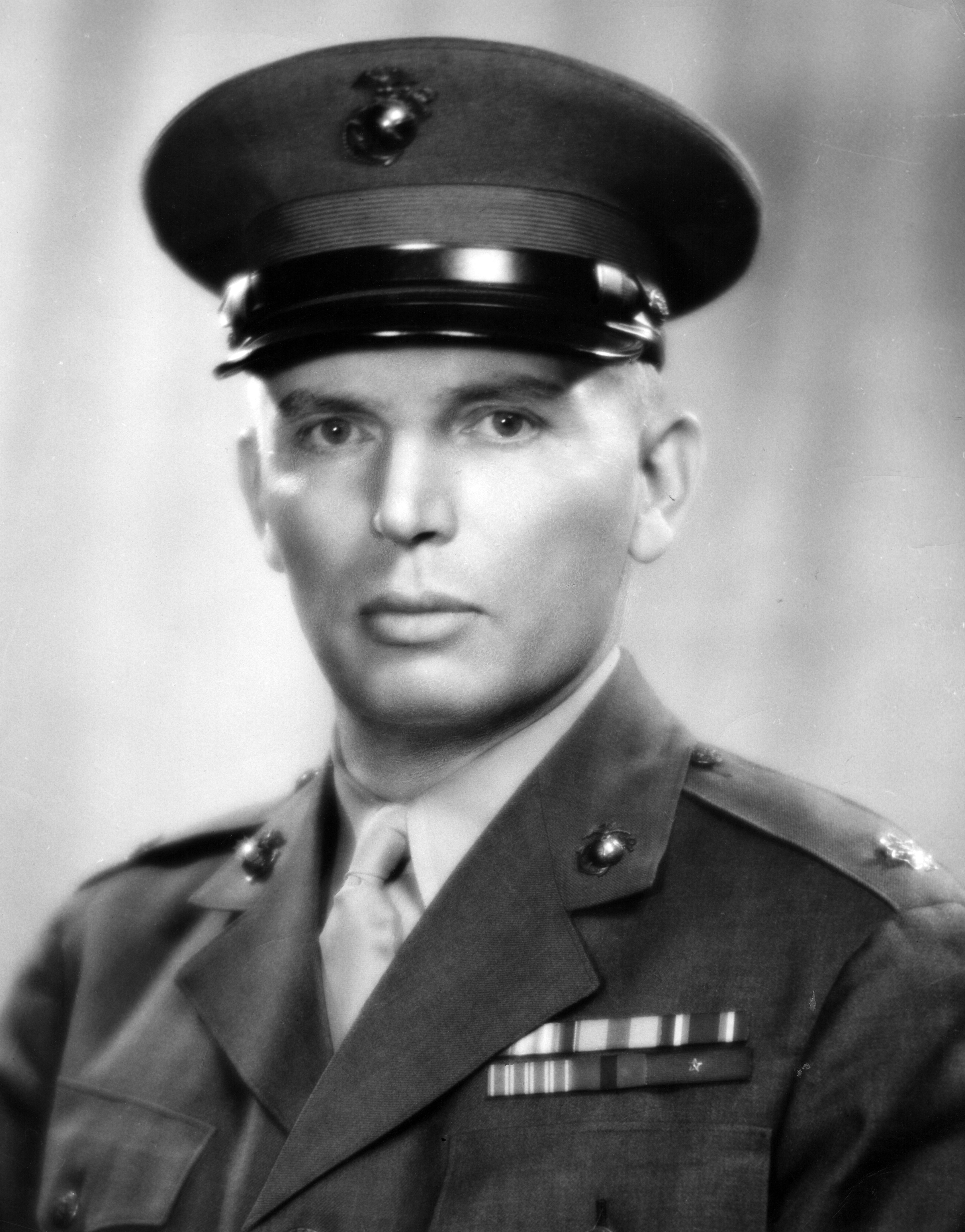 Walter William Wensinger (September 4, 1894 - July 10, 1972) was a highly decorated officer of the United States Marine Corps with the rank of Lieutenant General. He is most noted for his service as Commanding officer of 23rd Marine Regiment during Battle of Iwo Jima, when received Navy Cross, the United States military's second-highest decoration awarded for valor in combat. Wensinger finished his career as Special Advisory Assistant to the Commandant of the Marine Corps. Here shown as lieutenant colonel.